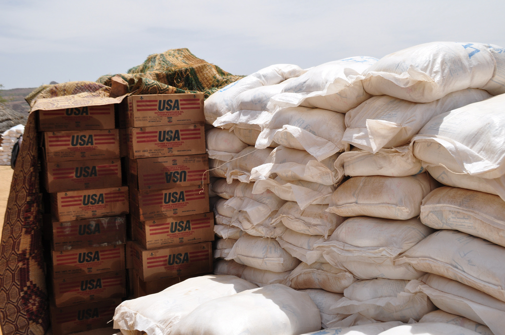 Aid from USAID and the UN's World Food Programme (WFP)in Ain Siro.